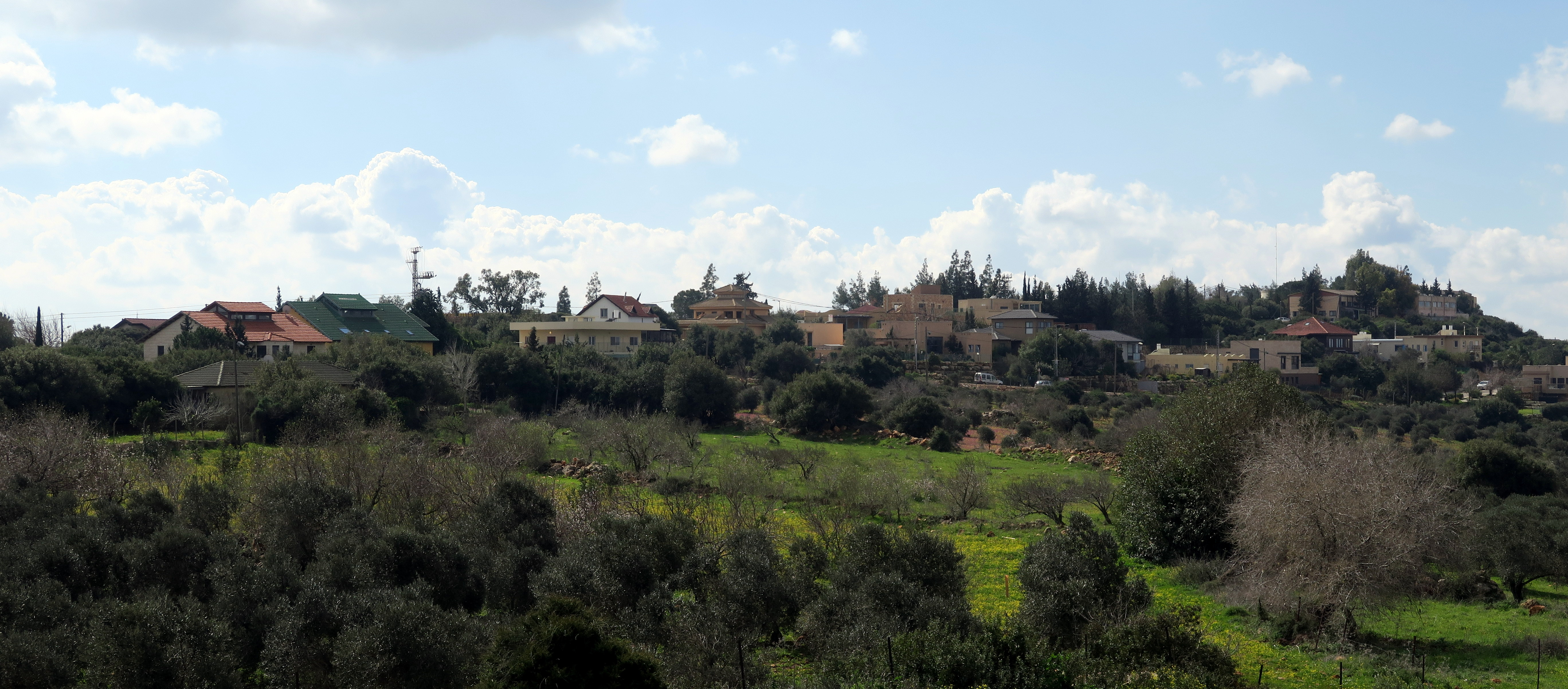 A view of Hararit from north-east. The northern neighborhood is visible.